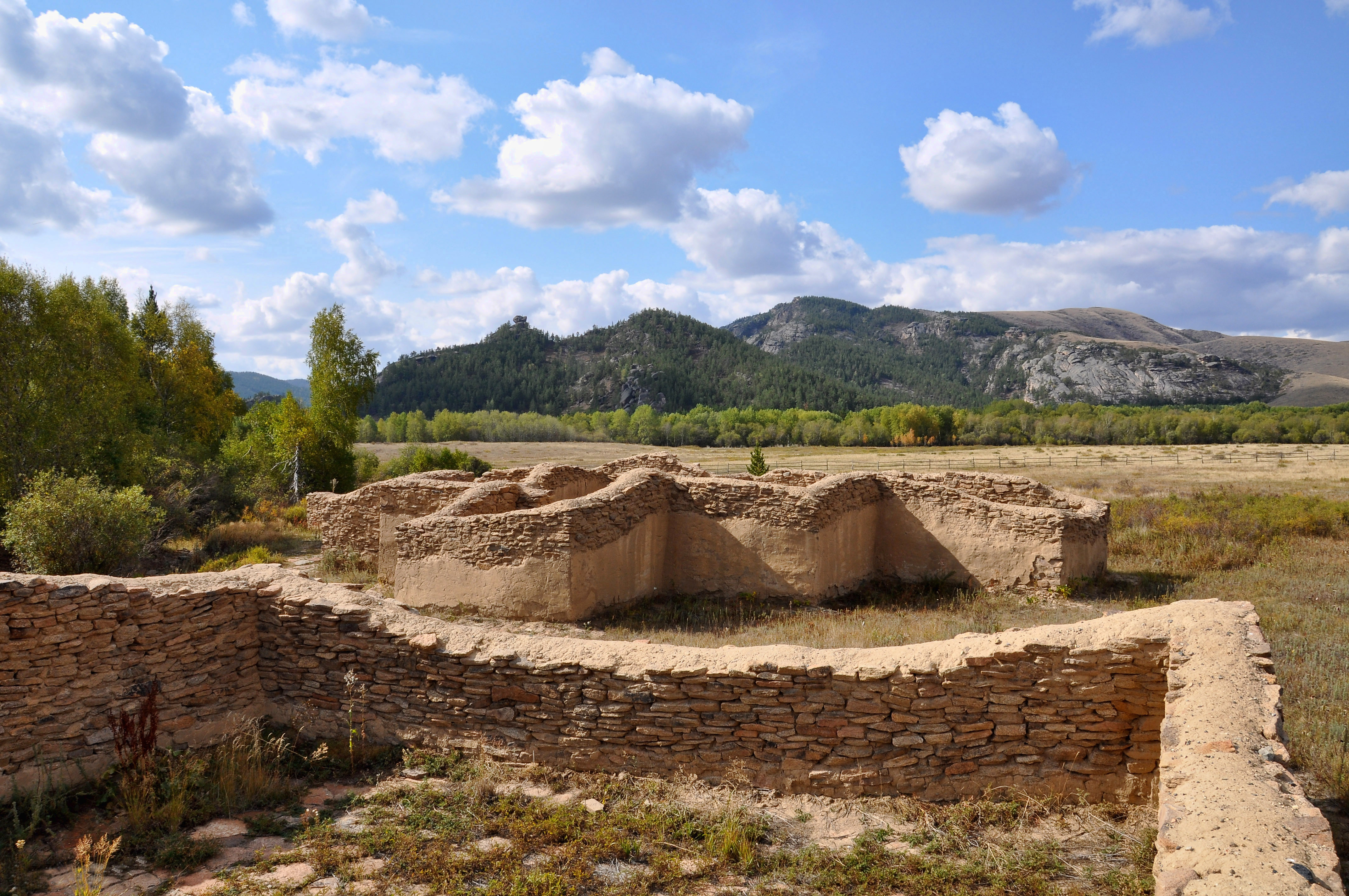 Kizhel Kensh palace ruins